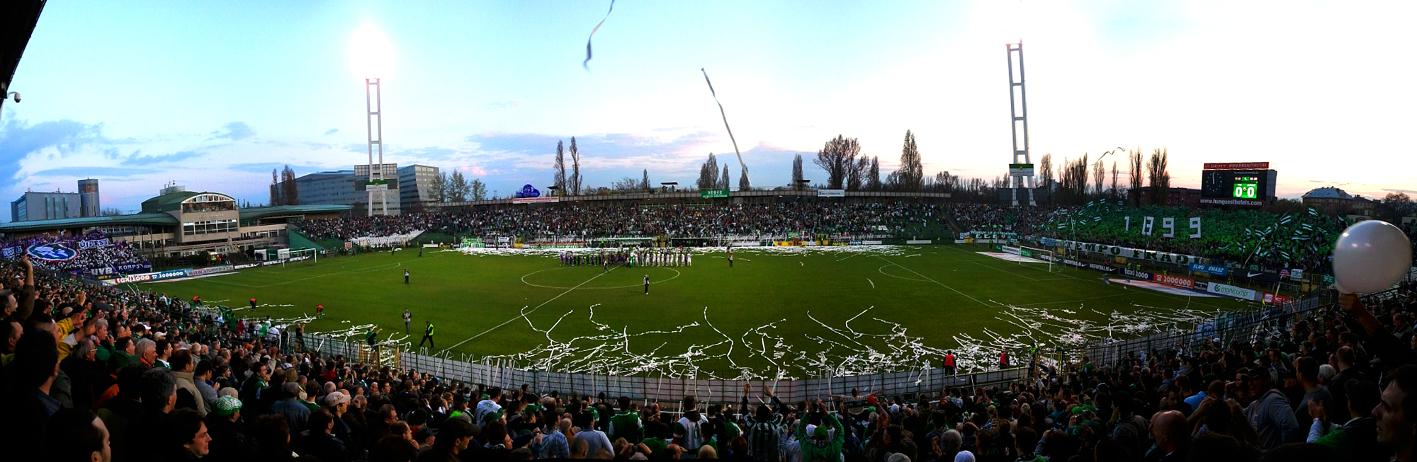 Match beetween FTC and Újpest FC in Budapest, Hungary, Albert Flórián Stadium in 2011/04/01